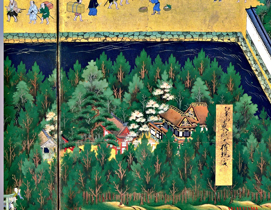 TOP OF FIRST PANEL, Left Screen (Northern enciente of Edo Castle, Suruga Dainagon residence, Ohanabatake (the shogun's botanical garden for medicine), Momijiyama, Tosho Daigongen Shrine). "View of Edo" (Edo zu) pair of six-panel folding screens (17th century).